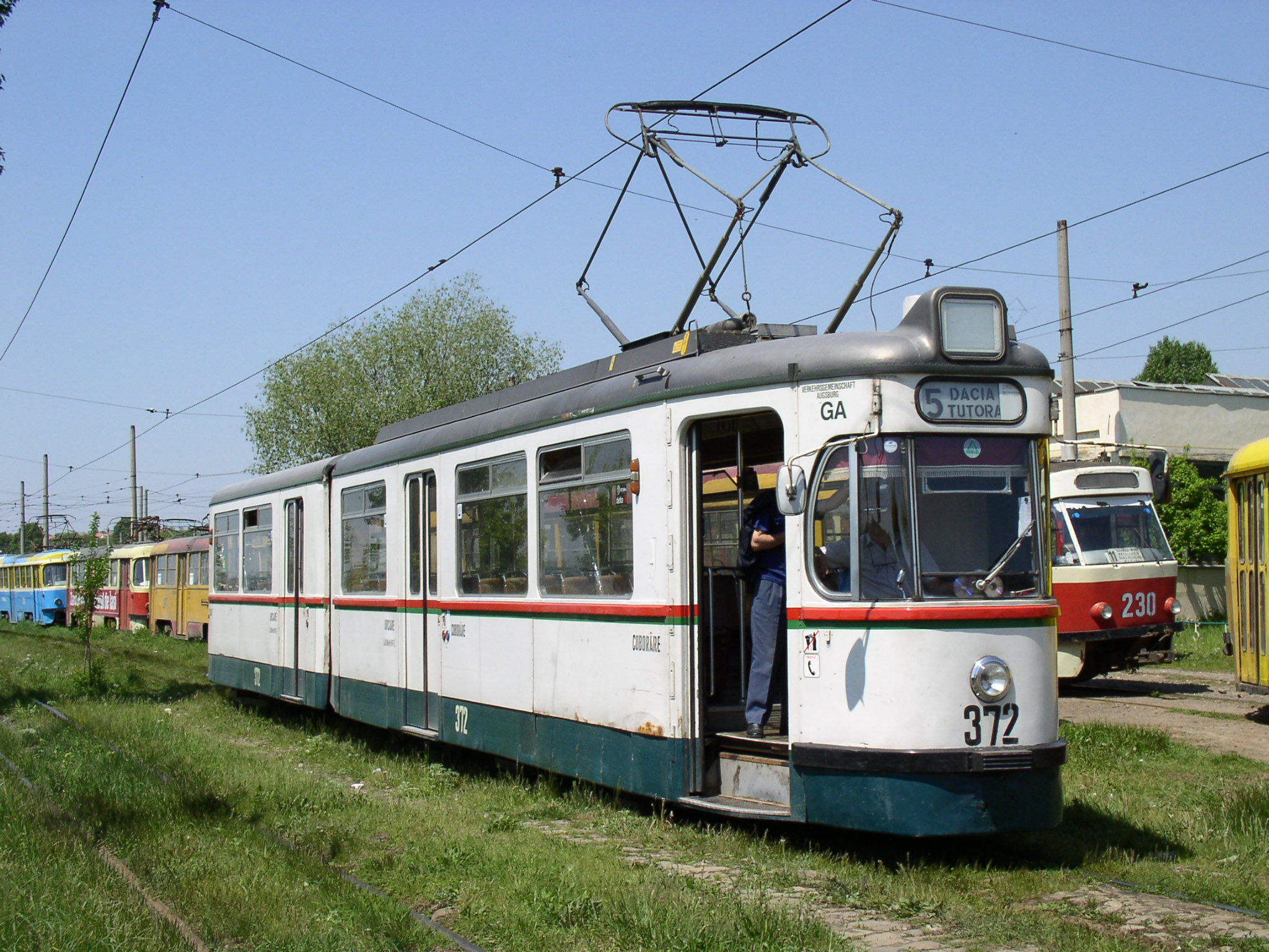 Iasi tram 372, ex-Augsburg 532, at Dacia depot (carhouse) in 2006, with several Tatra T4 trams in the background. Car 372 is a type GT5 five-axle tram built in 1964 by MAN. It was acquired by the Iasi tram system in 2001, and was numbered 369 in Iasi until 2003, when it was renumbered 372. It is still wearing its last Augsburg livery in this photo.